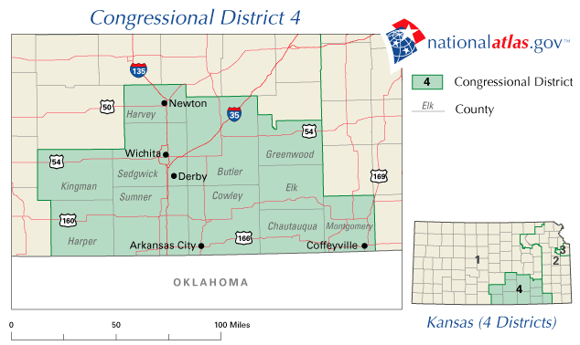 Congressional District 4 of Kansas for the 108th Congress. Also available in pdf format.